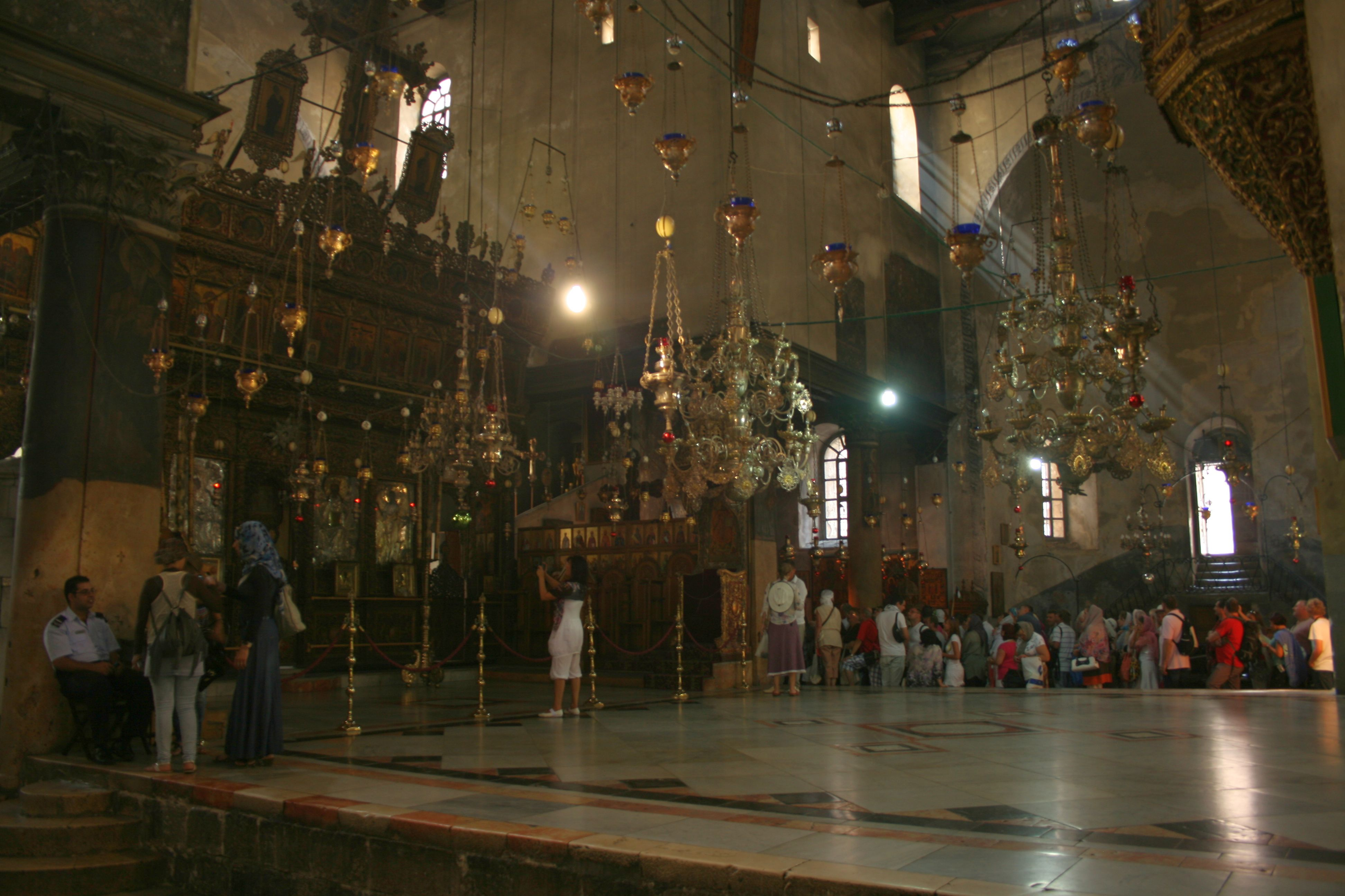 Interior of the Church of the Nativity, Bethlehem, Palestine